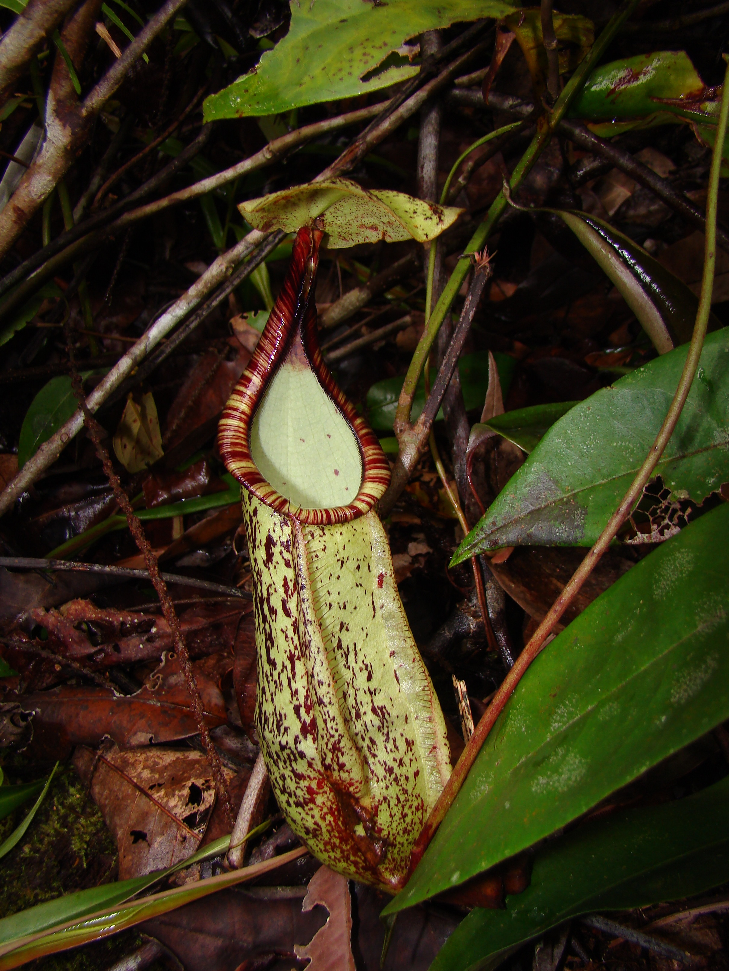 Nepenthes hemsleyana lower pitcher, Brunei